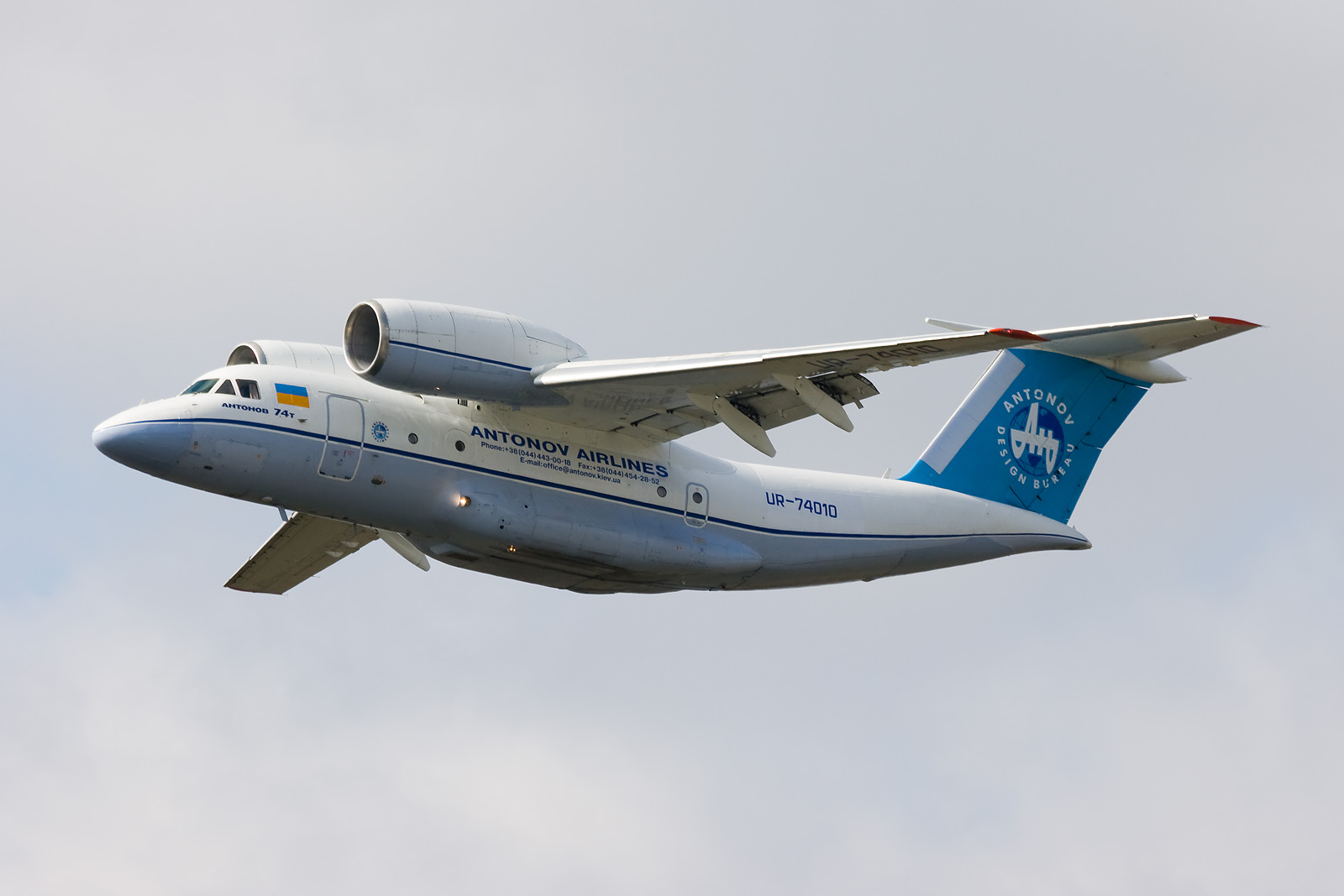 Antonov-An-74 at Gostomel airport (Antonov), Ukraine, September 2008